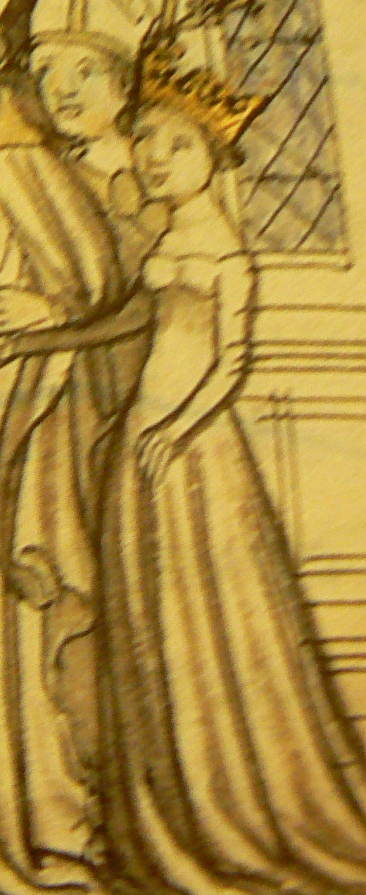 Eleanor of Aquitaine